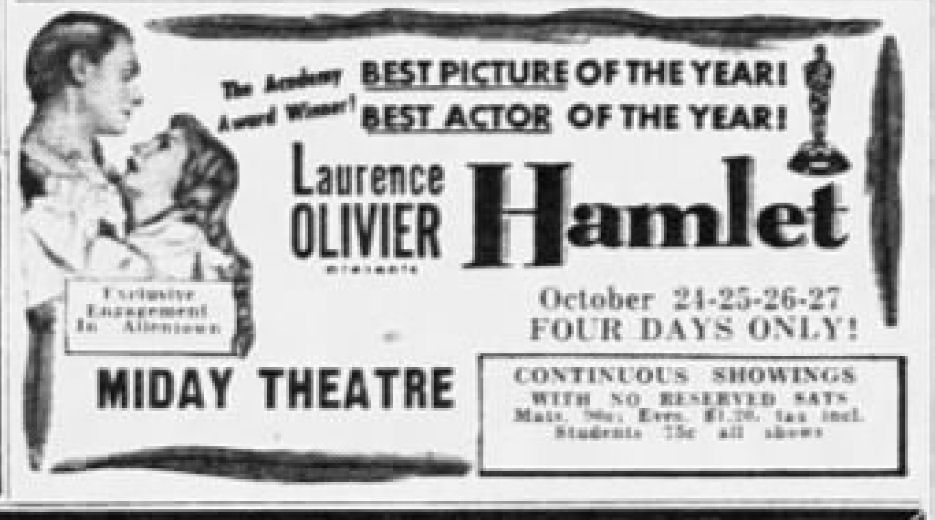 Midway Theater advertisement for the British film Hamlet (1948) - 19 Oct. 1949 Morning Call, Allentown, Pennsylvania